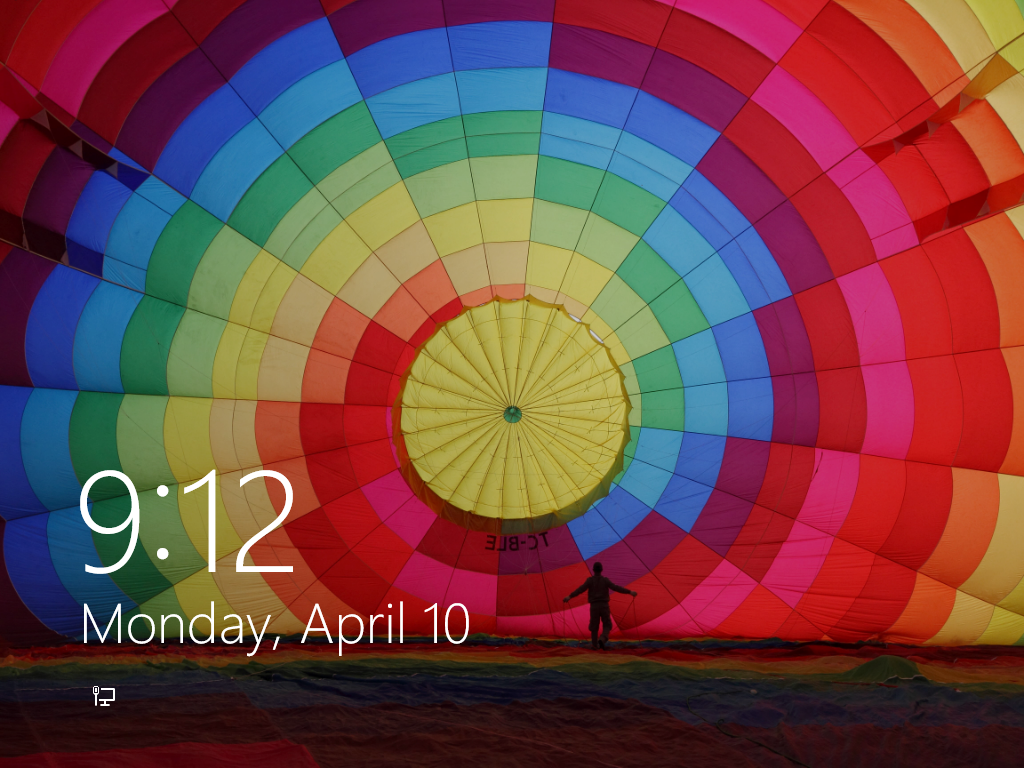 Screenshot of Windows 8 secure attention prompt. It is requesting user to press Ctrl + Alt + Delete key combination to Log in.